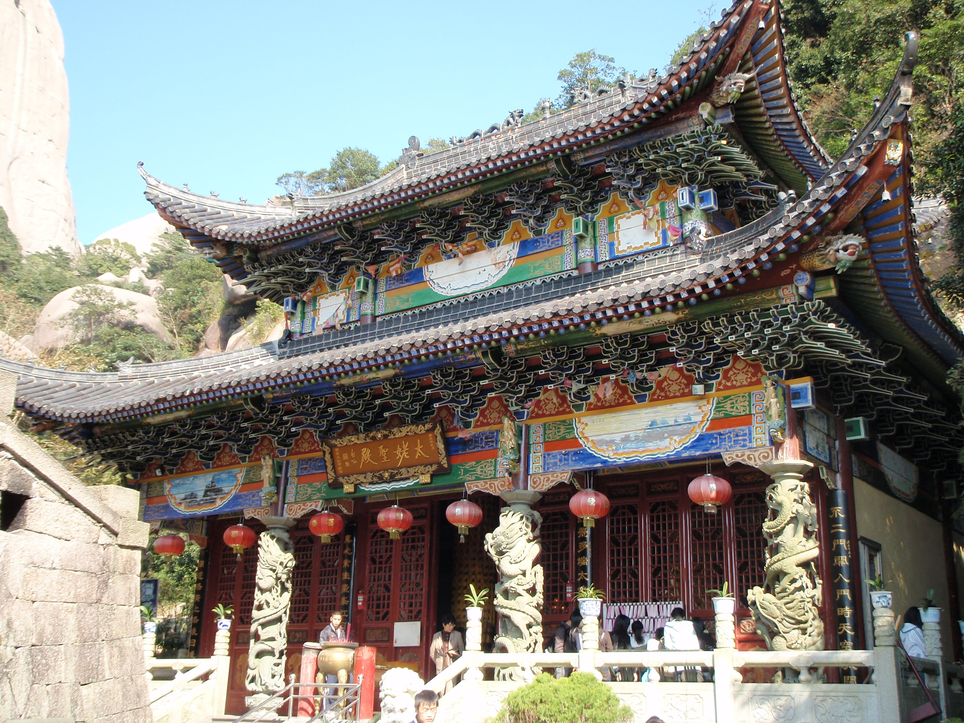 太姥圣殿 Tài lǎo shèng diàn = "Holy Temple of the Highest Mistress / Lady / Goddess".